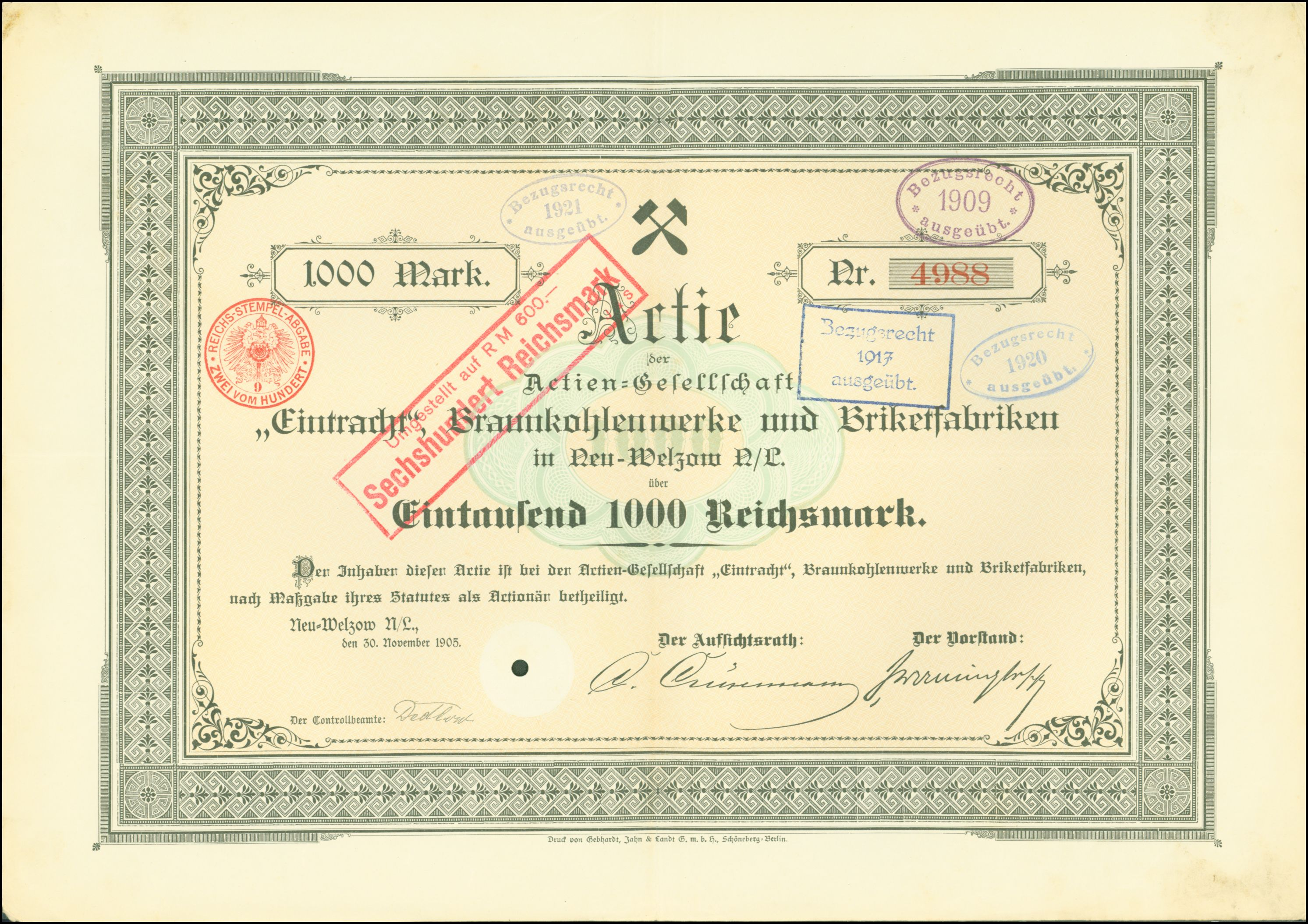 Share of the AG Eintracht Braunkohlenwerke und Briketfabriken, issued 30. November 1905